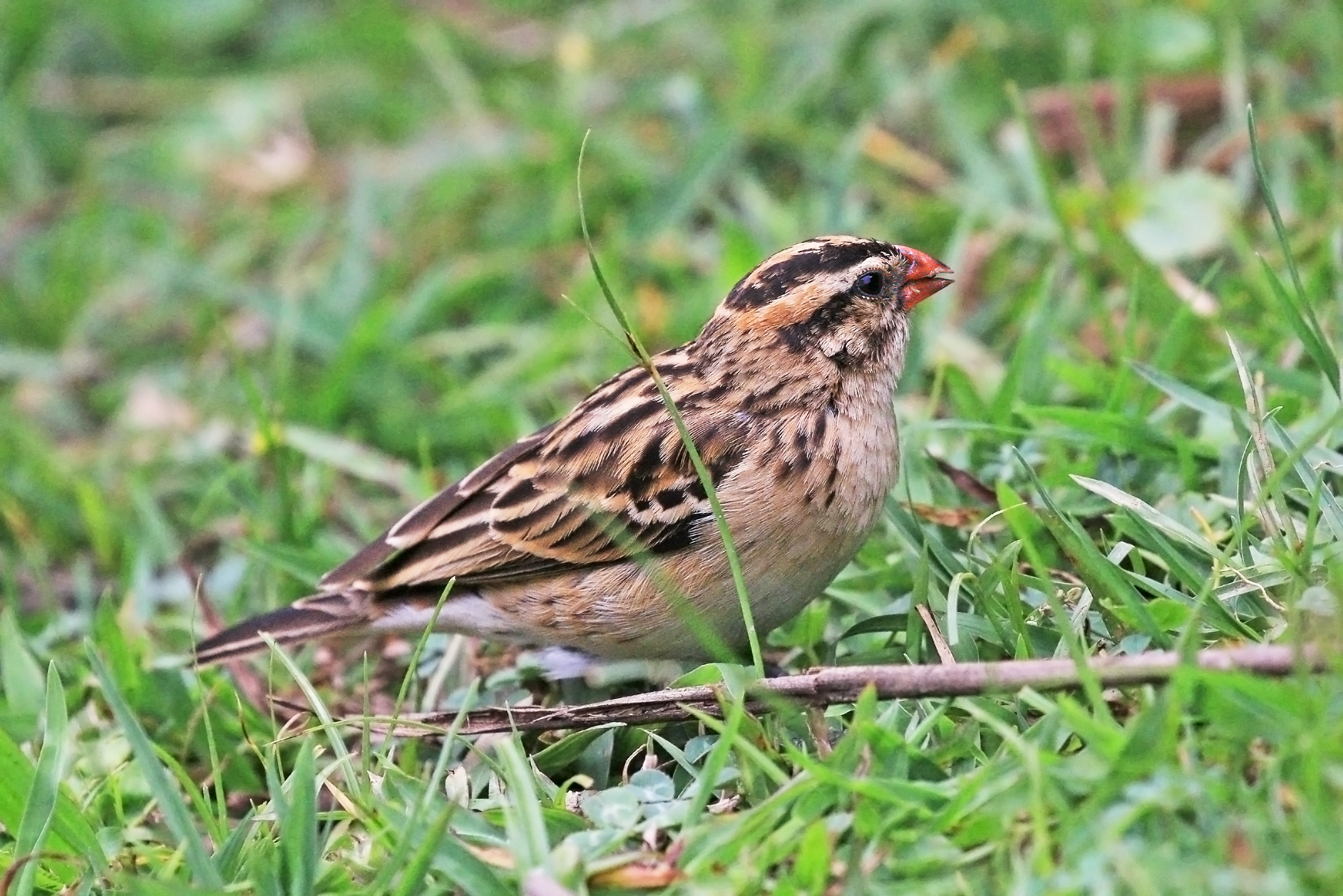 Pin-tailed whydah (Vidua macroura) female, Lake Bunyonyi, Uganda